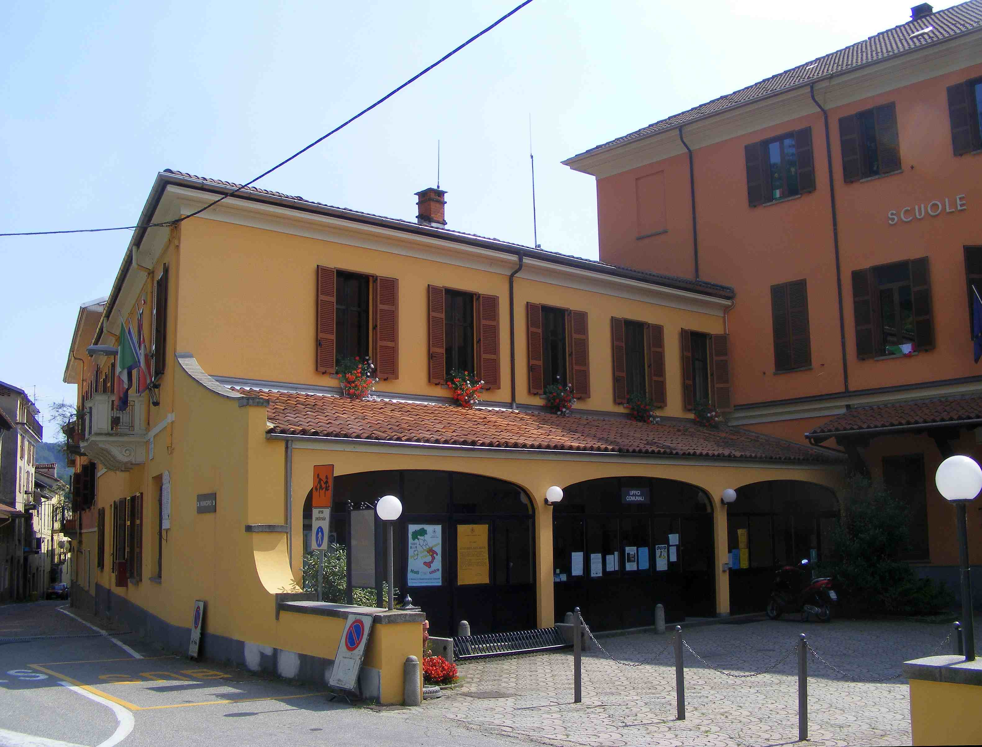 Andorno Micca (BI, Italy): town hall